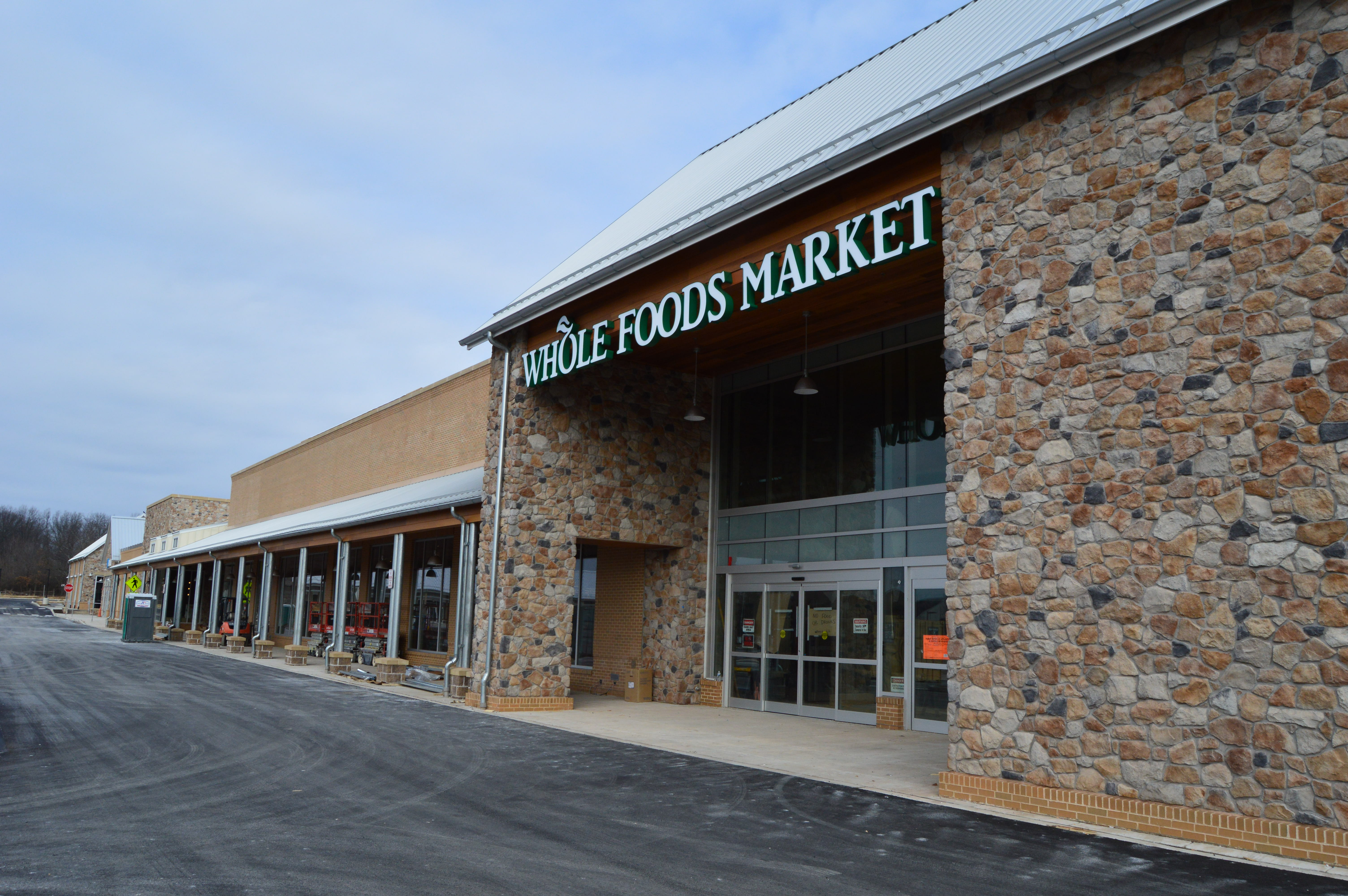 New Whole Foods Market in Spring House ready to open soon